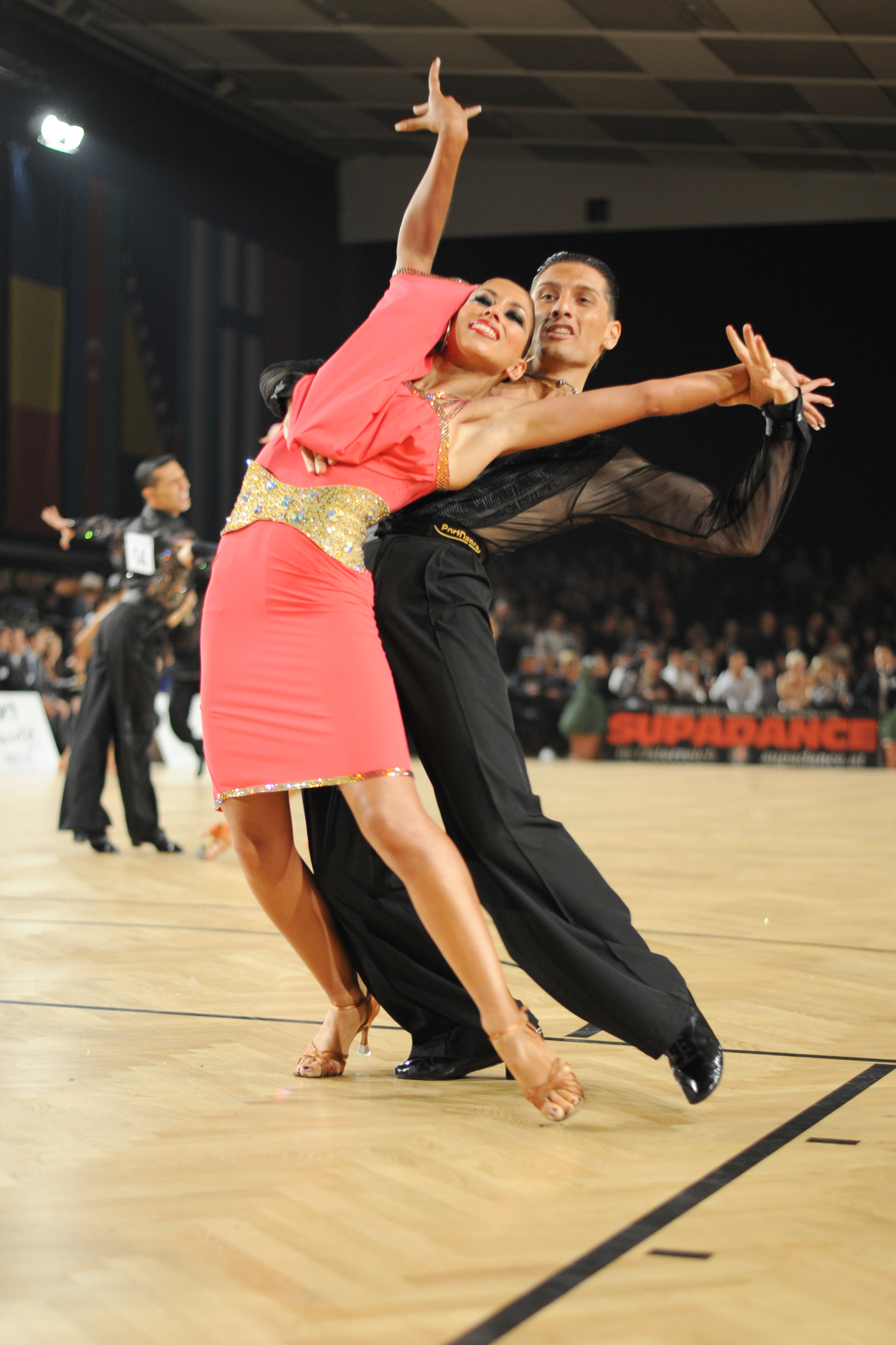 Austrian Open Championships Vienna, 2012 WDSF World Dancesport Championships Latin 16.-18. November 2012 The making of this work was supported by Wikimedia Austria. For other files made with the support of Wikimedia Austria, please see the category Supported by Wikimedia Österreich. Personality rights warningAlthough this work is freely licensed or in the public domain, the person(s) shown may have rights that legally restrict certain re-uses unless those depicted consent to such uses. In these cases, a model release or other evidence of consent could protect you from infringement claims.